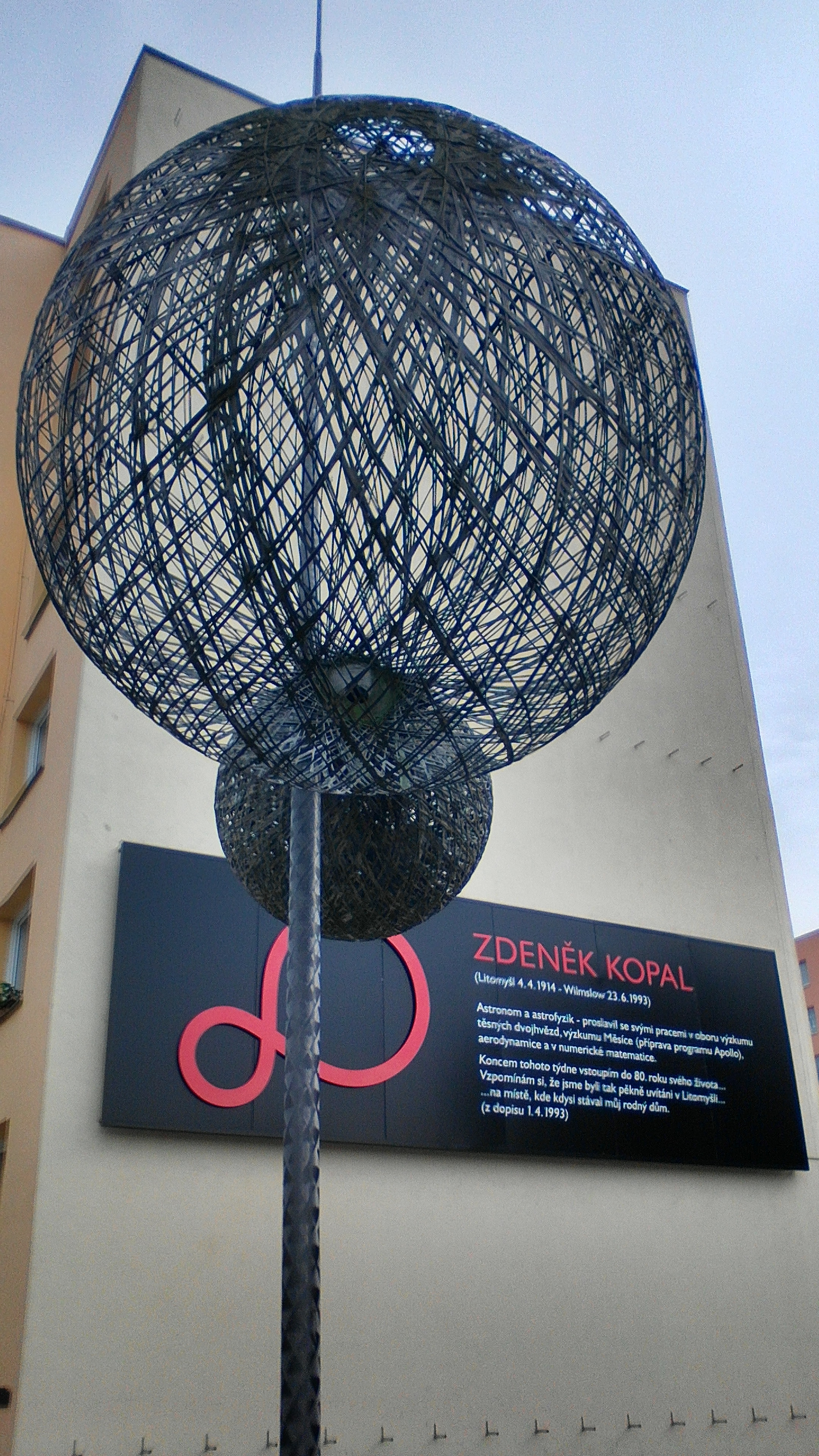 Sculpture "Binary star" showing two drop-like stars is a memorial to Czech astronomer Zdeněk Kopal. The sculpture is made of kevlar fibers. The sculpture was made by Federico Díaz and Marian Karel. It is next to the house number 1044 in Havlíčkova street in Litomyšl, where used to be a birtplace of Zdeněk Kopal. The outline of the house is formed by light. The original sculpture was installed on April 3, 2004 (start were on the ground). The smaller star was damaged in 2005. It was renewed in 2005 (stars were placed up). Memorial was damaged by heavy rain in 2009 (computer controlled text on the ground). The text of the memorial was renewed in 2010 (not controlled by computer; simplified with LED lighting).